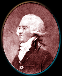 A painting of William Temple Franklin by John Trumbull. Oil on canvas. 1790-1791.